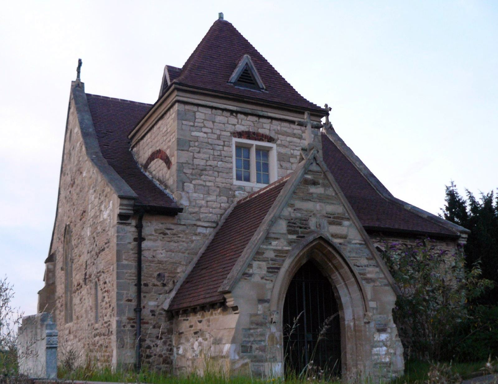 St Oswald's parish church, Kirk Sandall, South Yorkshire